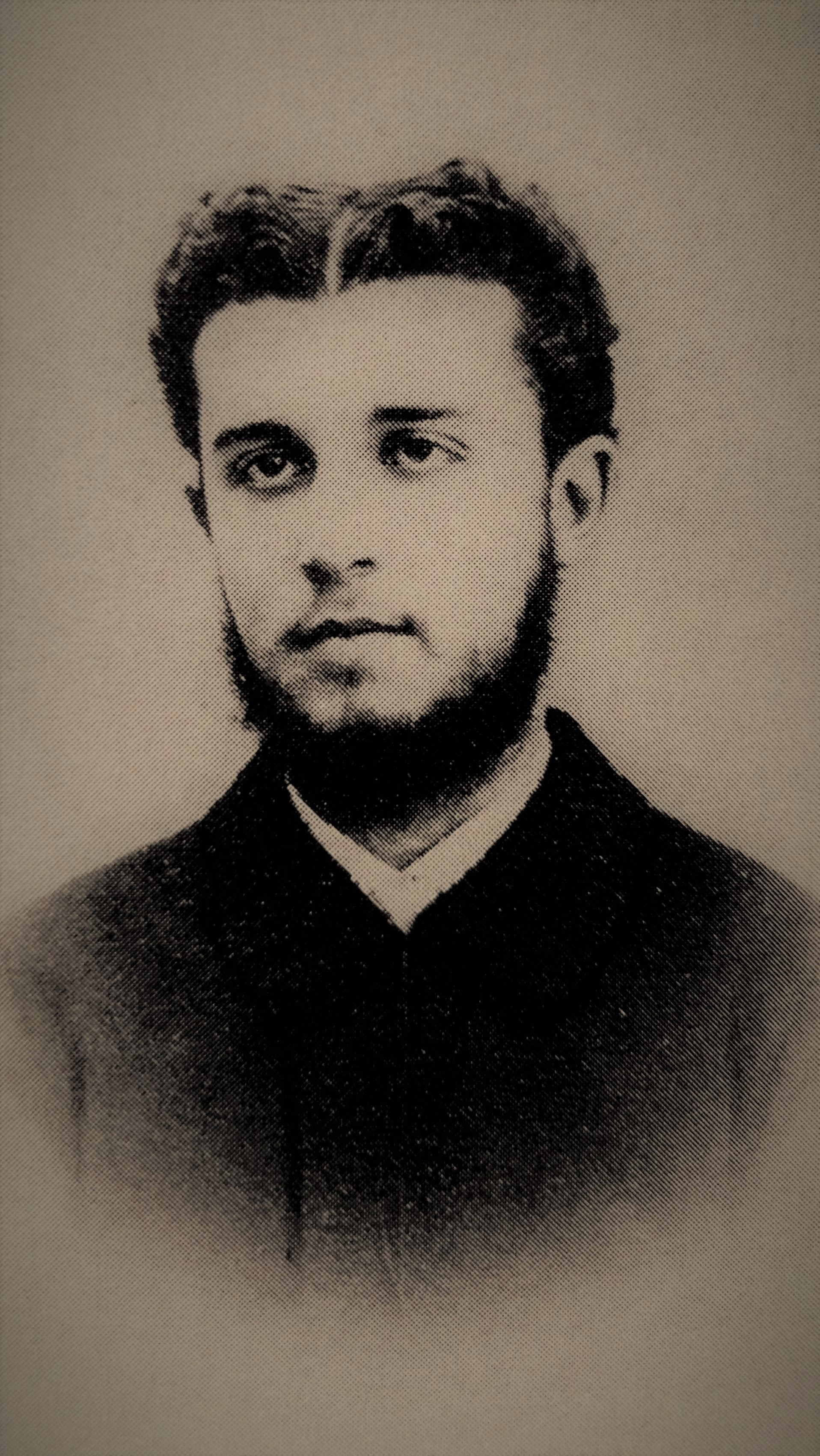 Poeta Antonino Chocomeli Codina